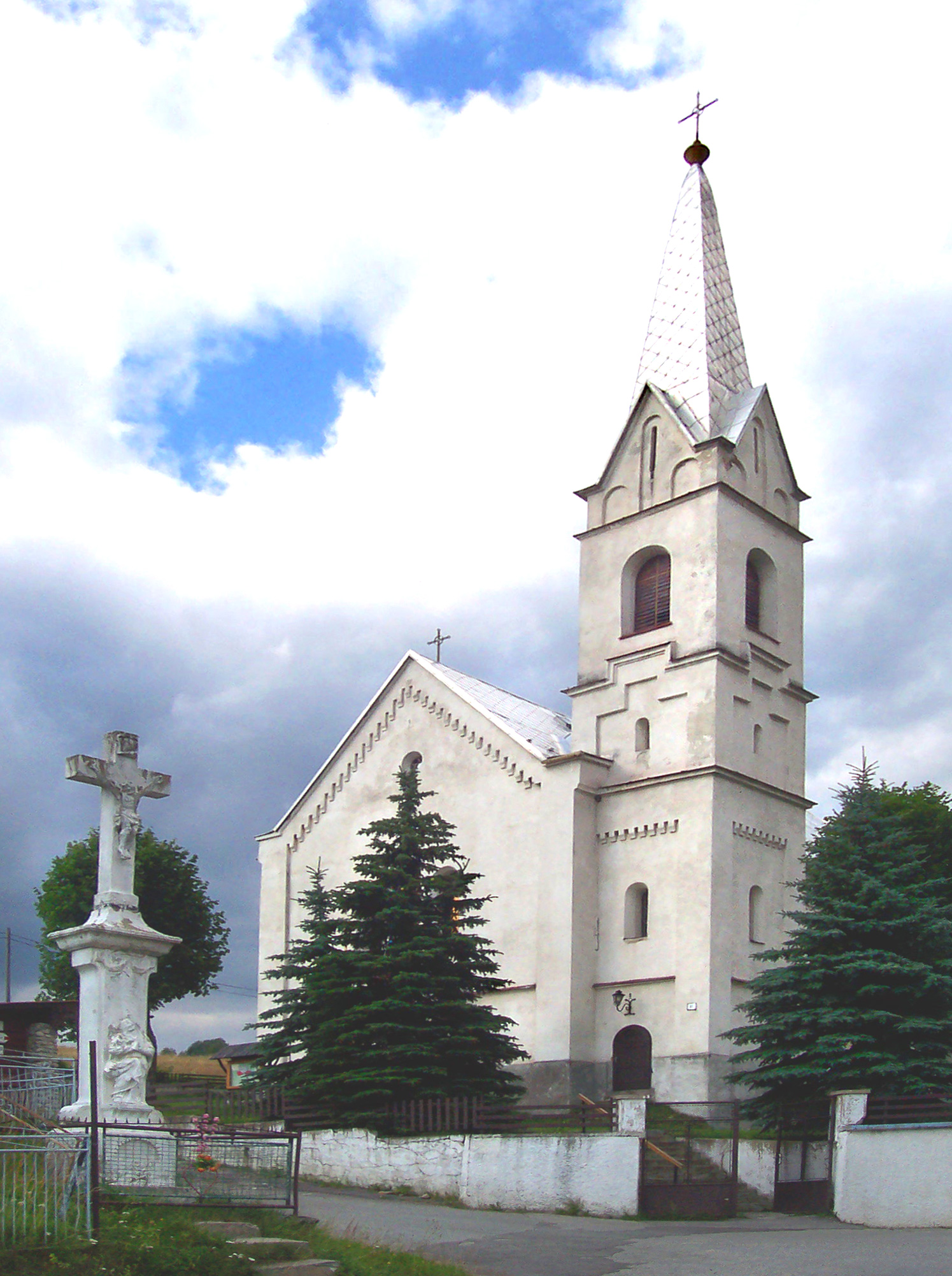 Church at Huty village. Liptov, Slovakia